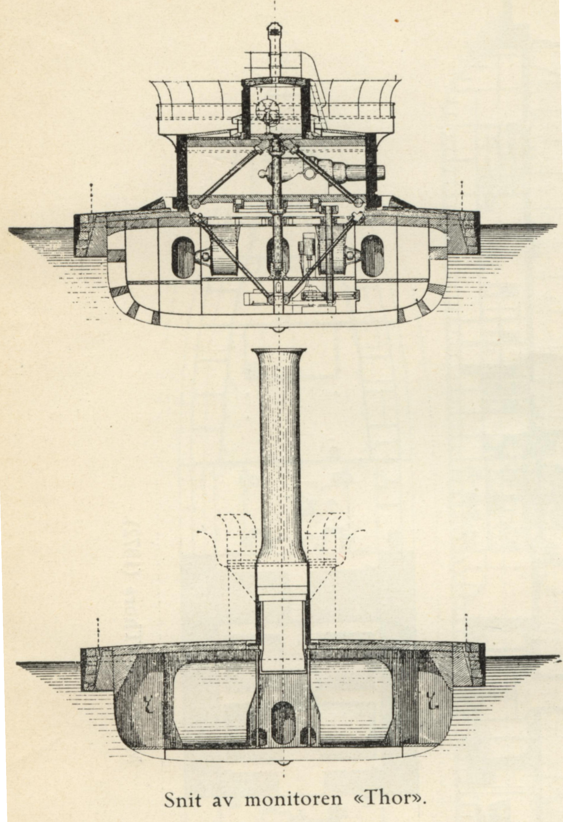 Drawing of the Norwegian monitor "Thor" from 1872, cut view.